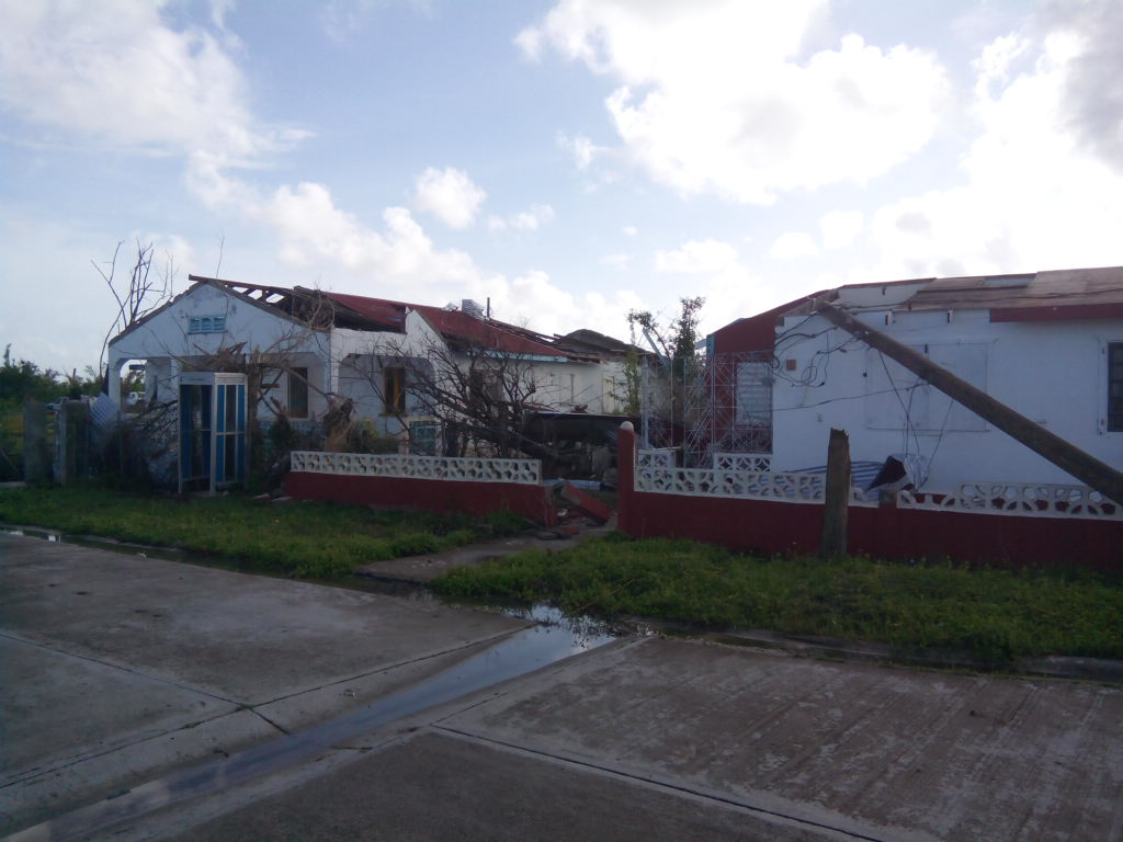 Hurricane Irma that destroyed 95% of Barbuda's infrastructures